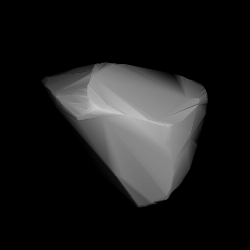 3D convex shape model of 1582 Martir, computed using light curve inversion techniques. J. Hanuš, J. Ďurech, M. Brož, B. D. Warner (June 2011). "A study of asteroid pole-latitude distribution based on an extended set of shape models derived by the lightcurve inversion method". Astronomy and Astrophysics 530: A134. ISSN 0004-6361. arXiv